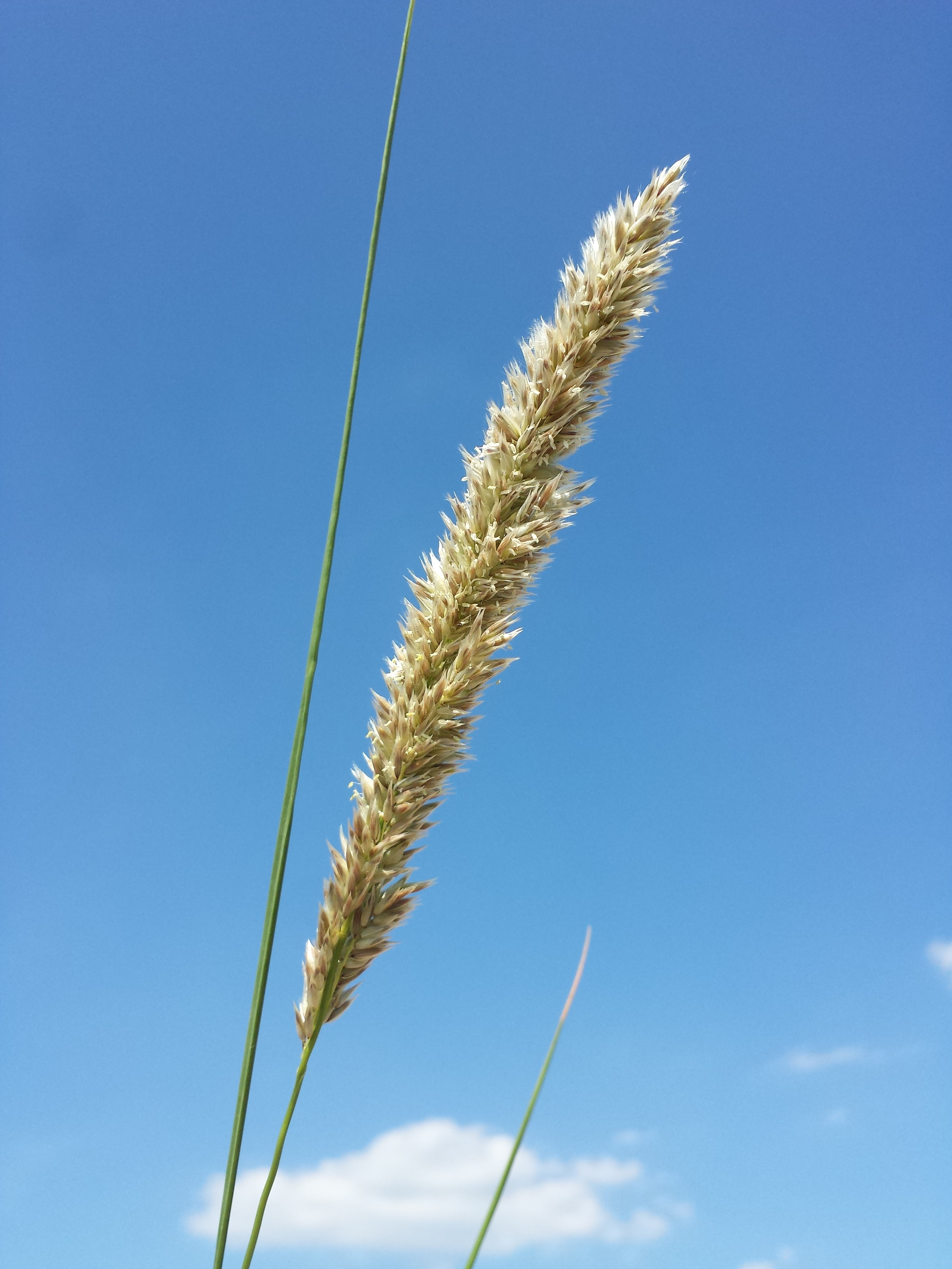 Panicle Taxonym: Melica transsilvanica (subsp. transsilvanica) ss Fischer et al. EfÖLS 2008 ISBN 978-3-85474-187-9 Location: "In der Hölle" near Wetzleinsdorf, district Korneuburg, Lower Austria - ca. 250 m a.s.l. Habitat: semi-dry grassland